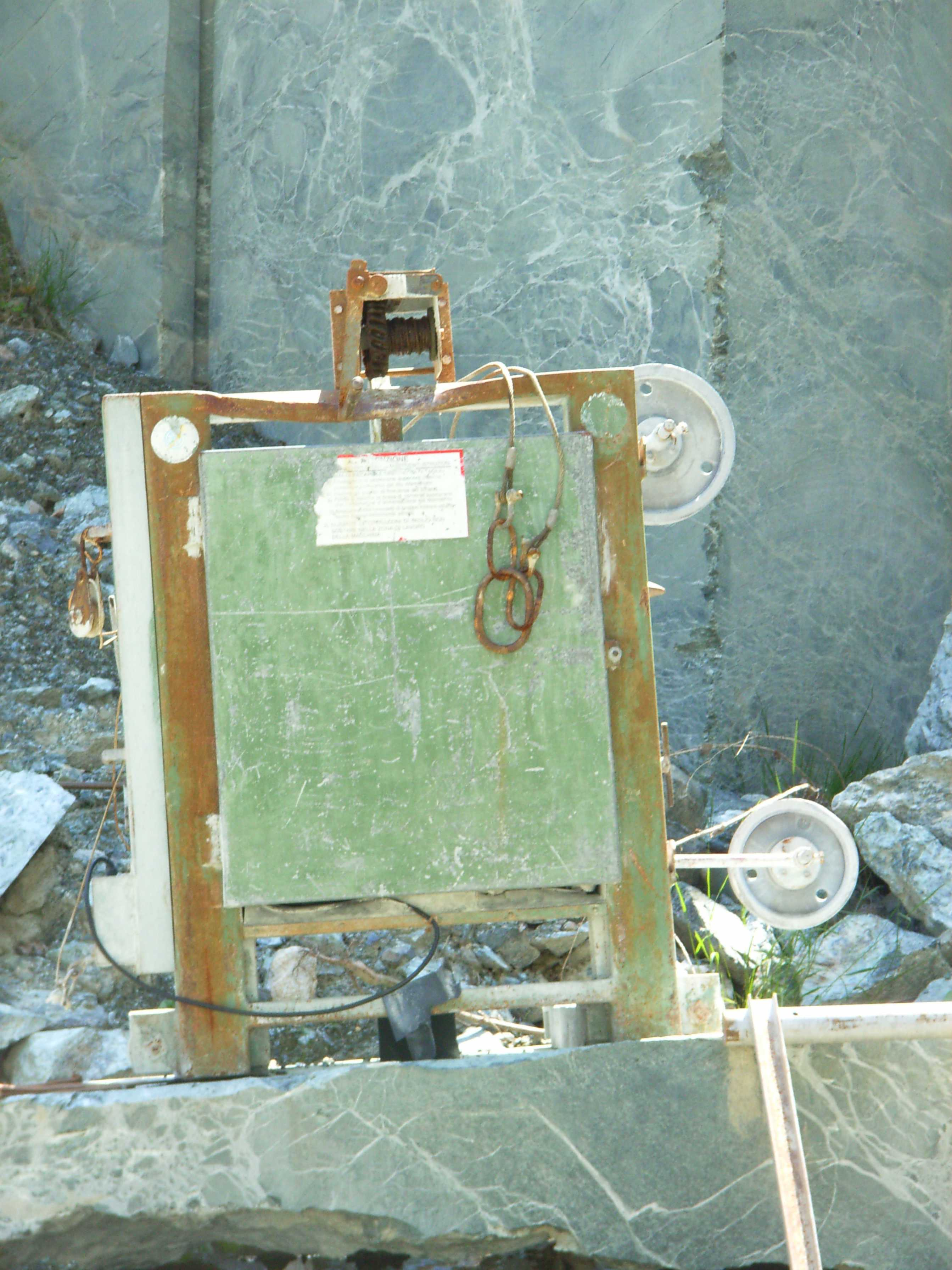 helicoidal wire saw in a quarry, small drive assembly